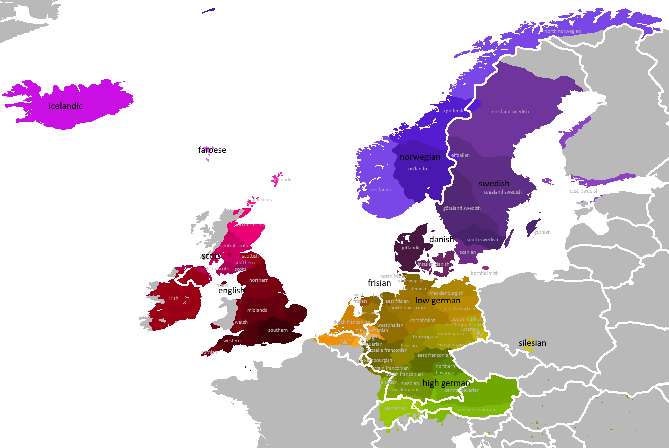 Germanic languages with respective dialects for each language. Please note some languages that are portrayed here are under debate whether they are dialect or language, in this map I have referred Scots as a separate language to English. I have also referred to Silesian as a different language as well.